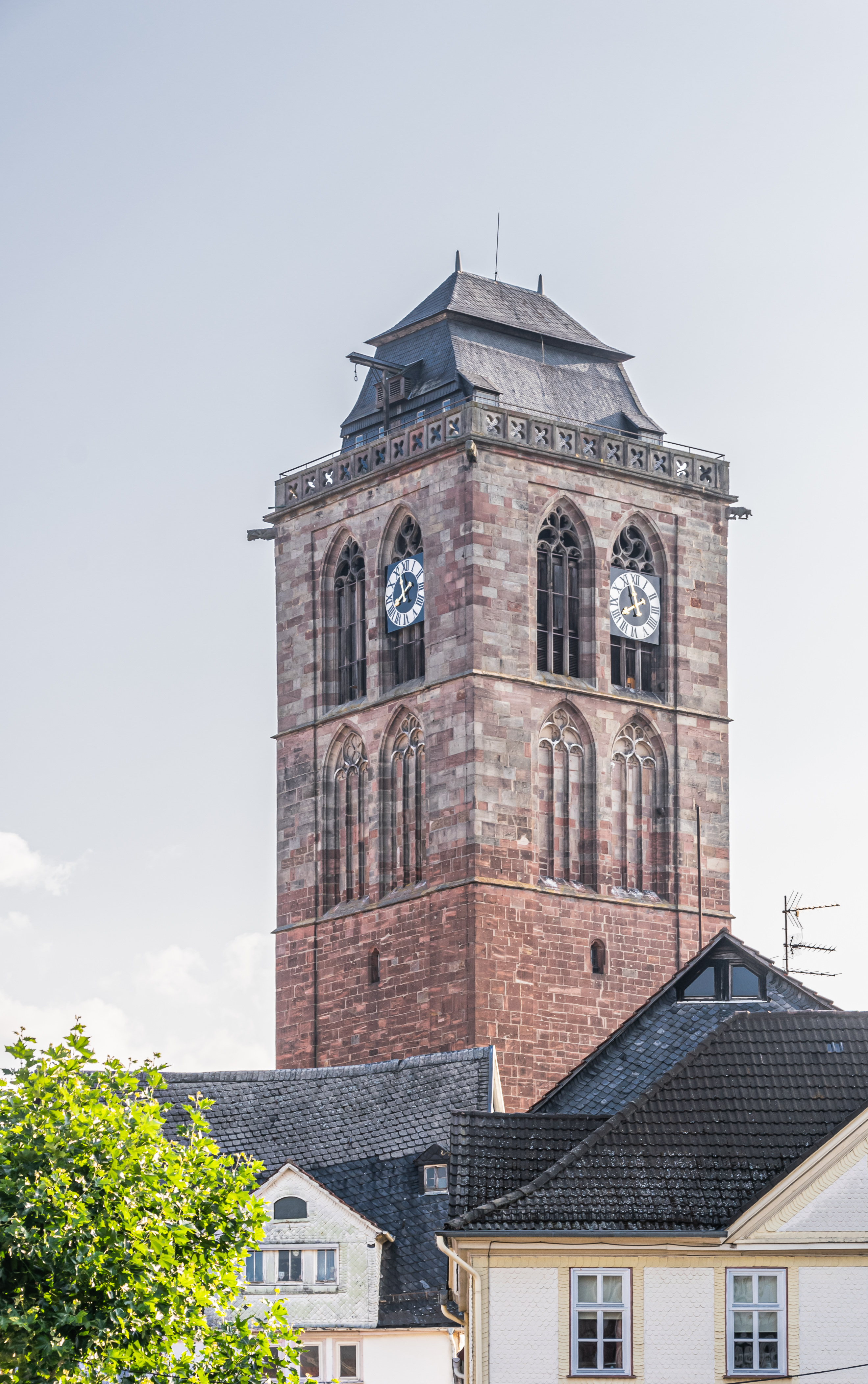 Bell tower of the protestant city church in Bad Hersfeld, Hesse, Germany